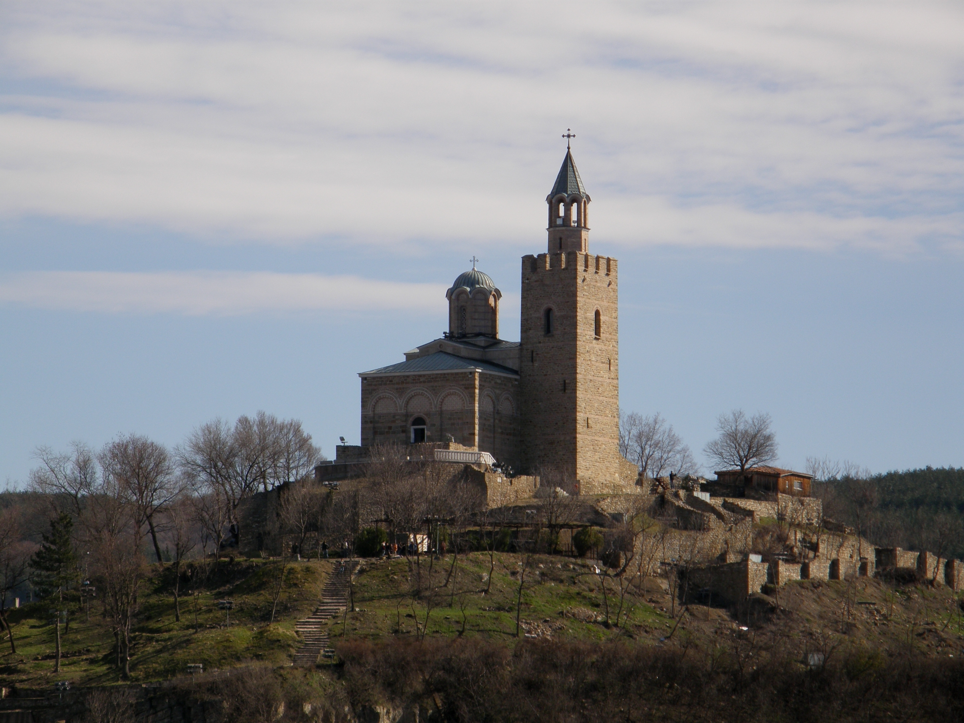 The Patriarchate at Tsarevets, the medieval stronghold of the Bulgarian city Veliko Tarnovo... Tsarevets...